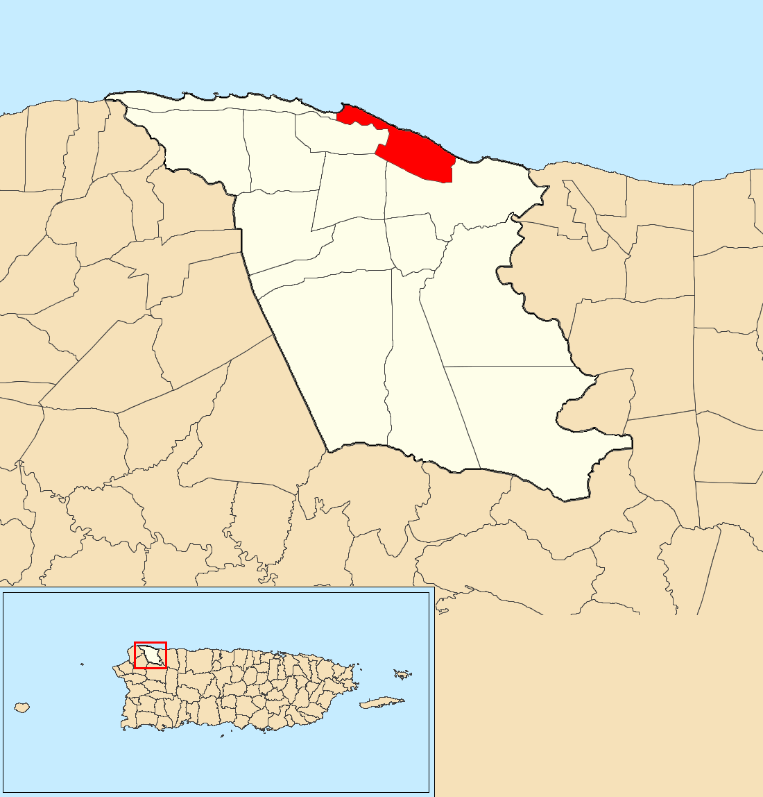 Guayabos, Isabela, Puerto Rico locator map